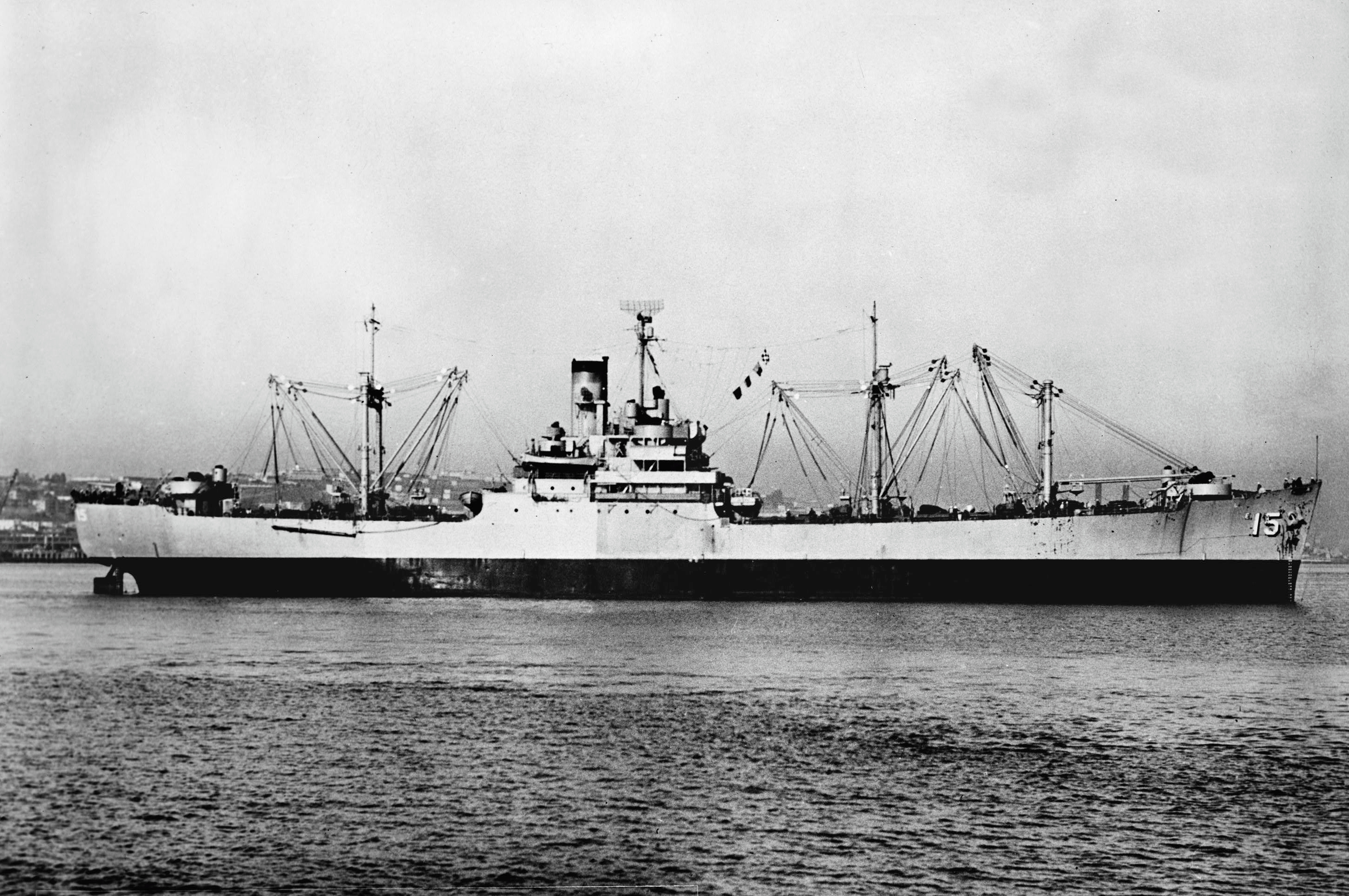 The U.S. Navy ammunition ship USS Vesuvius (AE-15) off the San Francisco Naval Shipyard, California (USA), on 3 March 1953, following a regular overhaul.